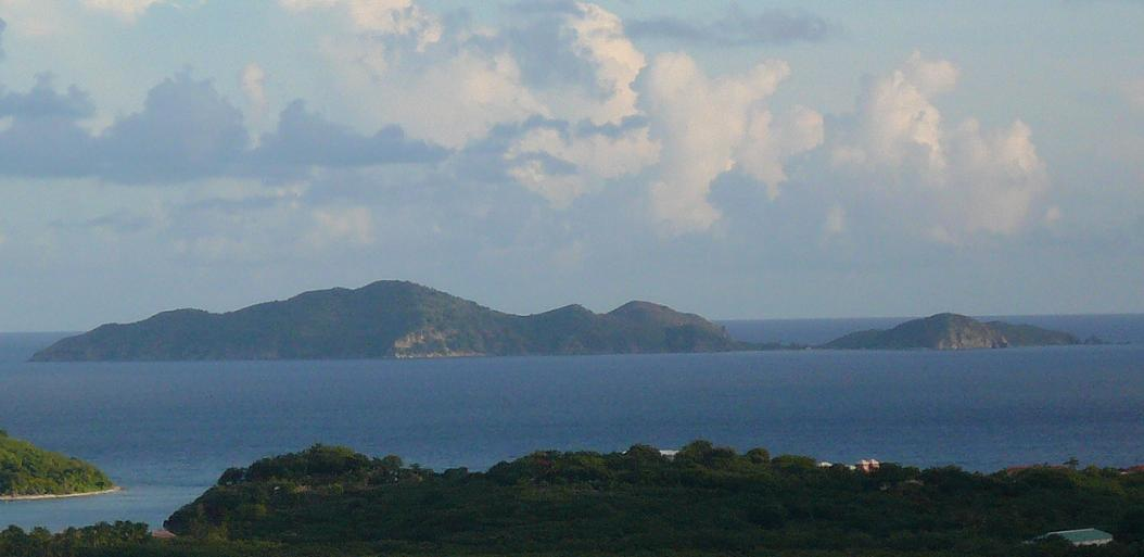 Salt Island, British Virgin Islands; view from Long Look on Tortola.